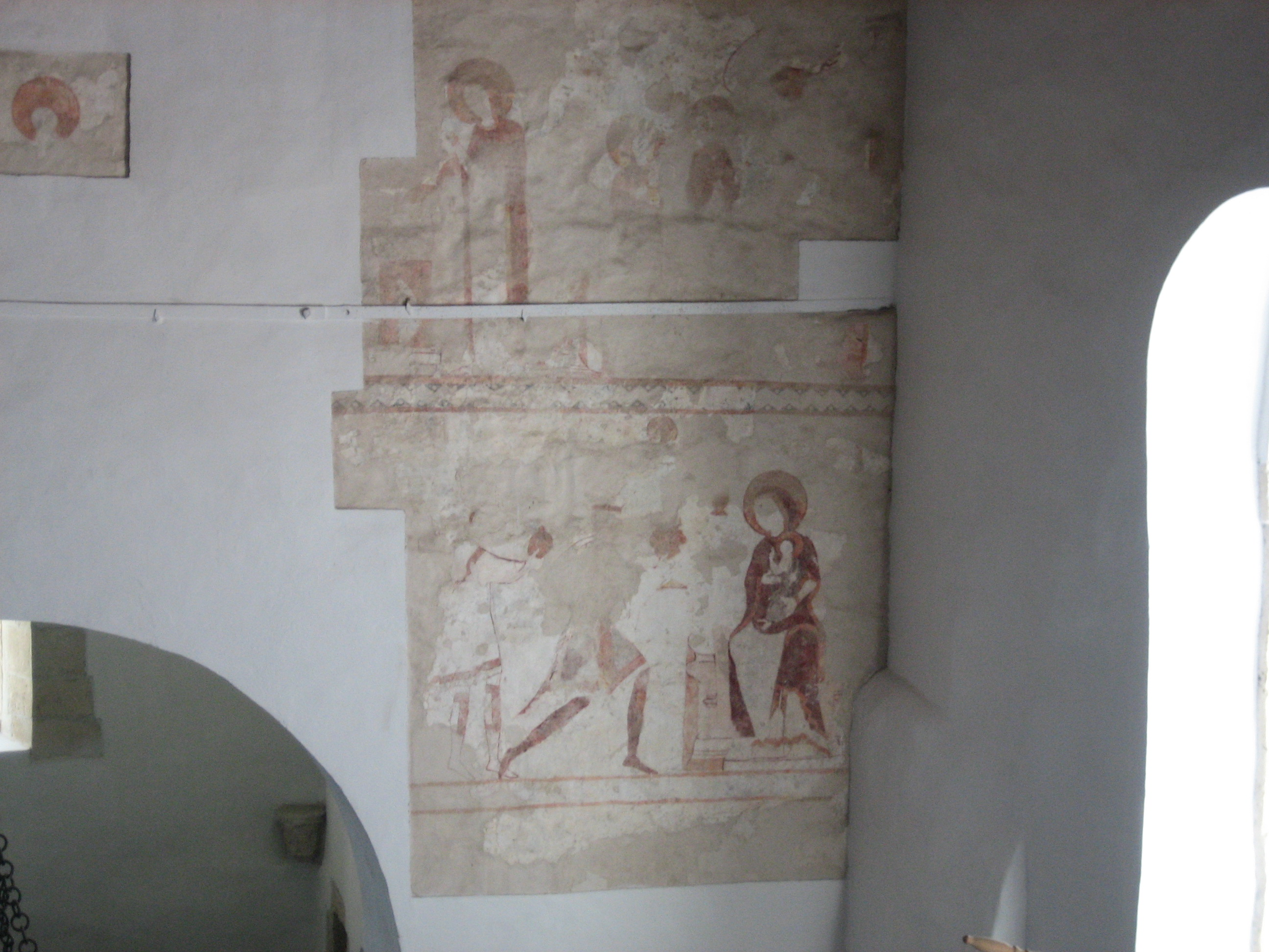 Gothic frescos of the calvinist church in Luncani, Cluj.